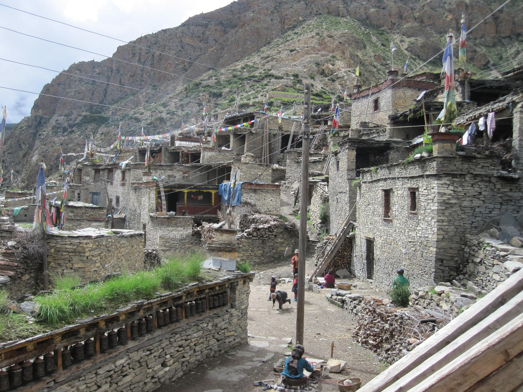 A VDC situated in Manang District in Nepal.